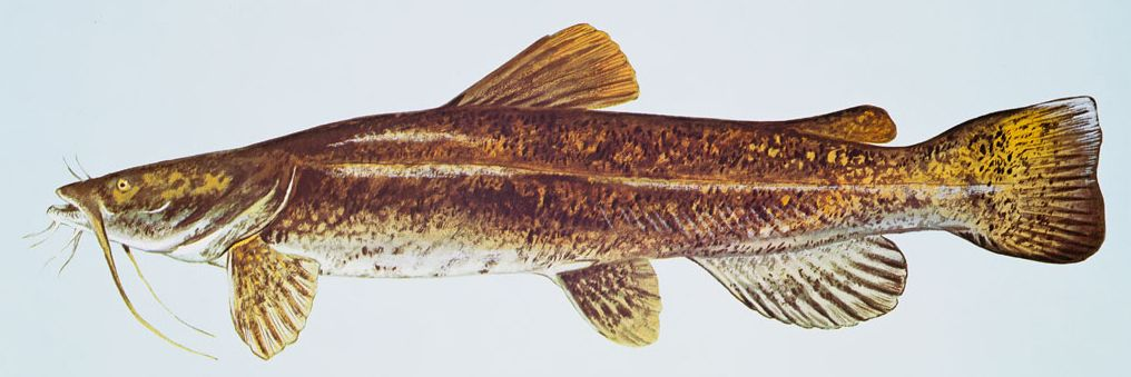 Flathead catfish (Pylodictis olivaris)